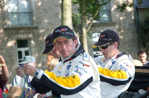 Pictures from the 24 Hours of Le Mans 2006 Drivers' Parade. - #64 Corvette drivers (l-r) Jan Magnussen, Olivier Beretta, and Oliver Gavin - GT1 winners